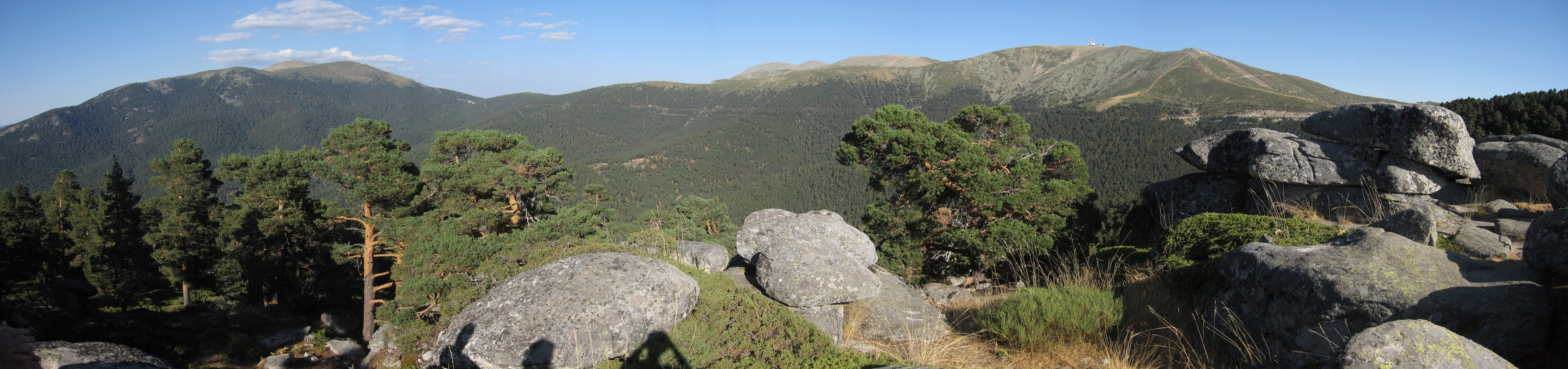 Peñalara and north face of Cuerda Larga seen from La Gallarza viewpoint (Guadarrama mountain range, central Spain).